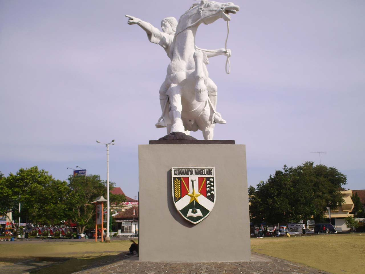 scenery